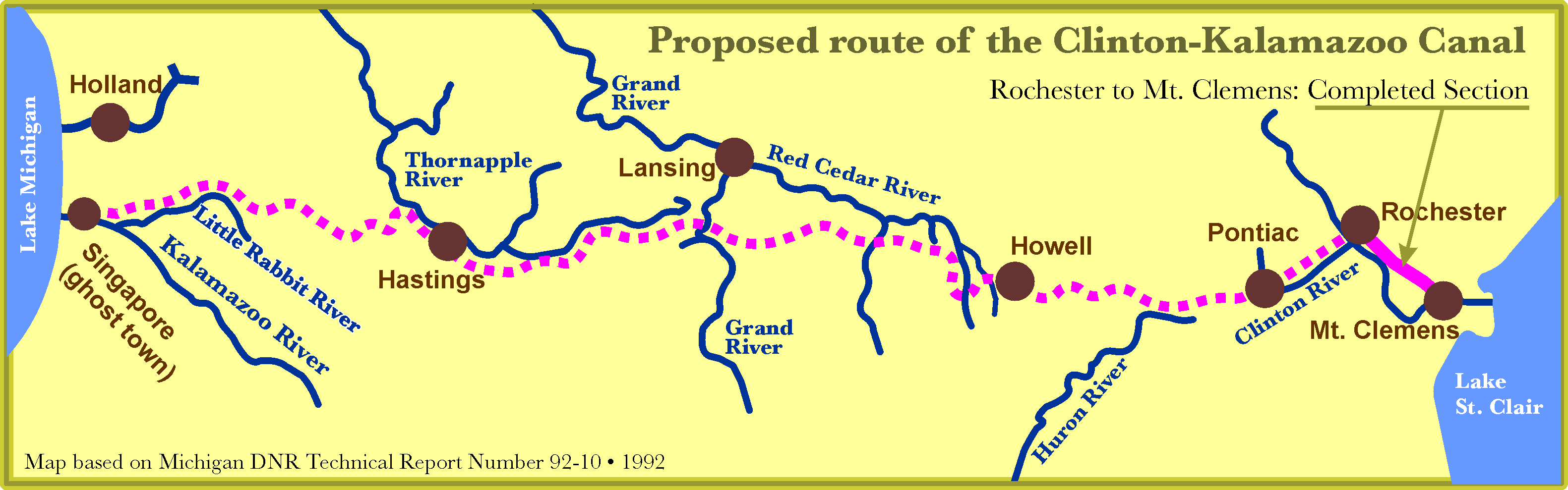 Proposed route of the Clinton-Kalamazoo Canal from Lake St. Clair to Lake Michigan. Based on information in Michigan DNR Technical Report Number 92-10 published in 1992